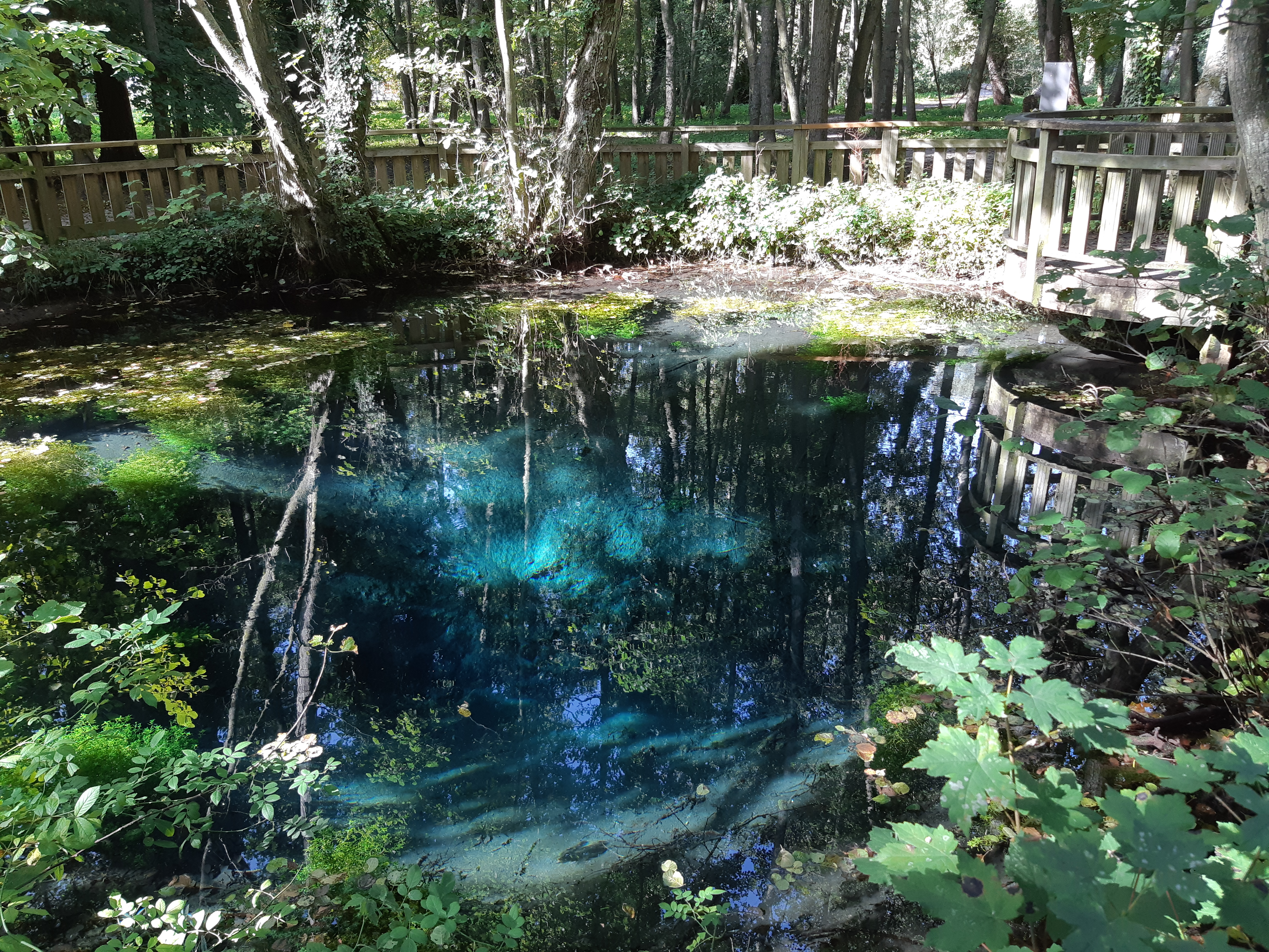 Blue spring in the Park of la Bouvaque in the north of Abbeville, France